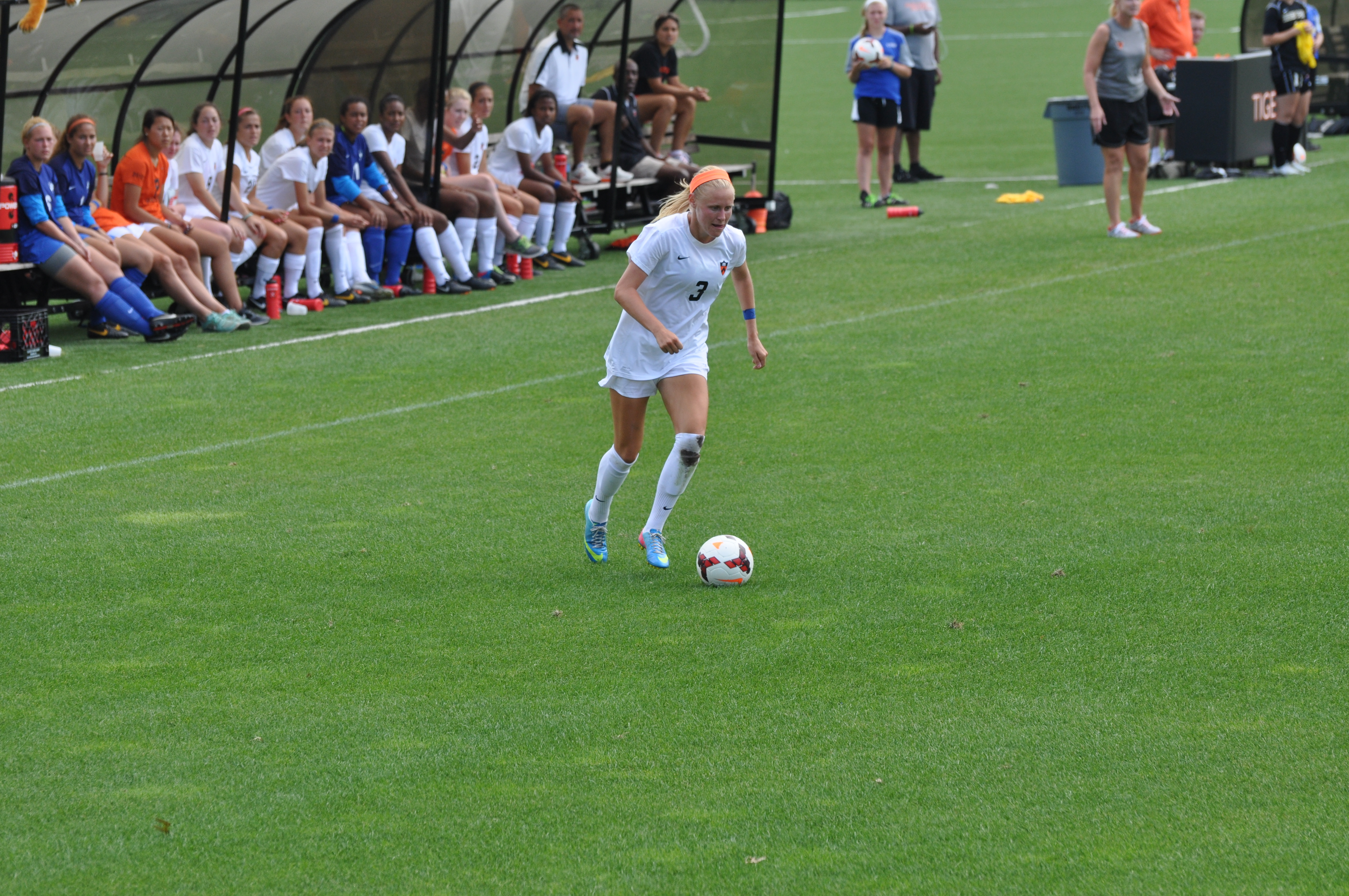 This .jpg file is a photo of Lauren Lazo playing soccer for the Princeton Tigers in 2013. Lazo is playing in a collegiate game against West Point in this photo.